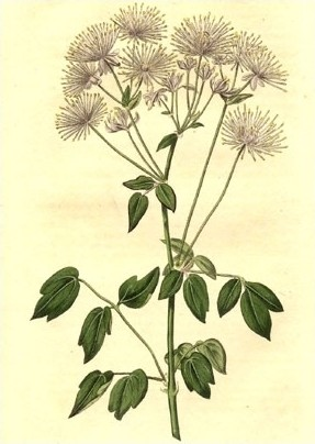 Illustration of Thalictrum aquilegifolium.